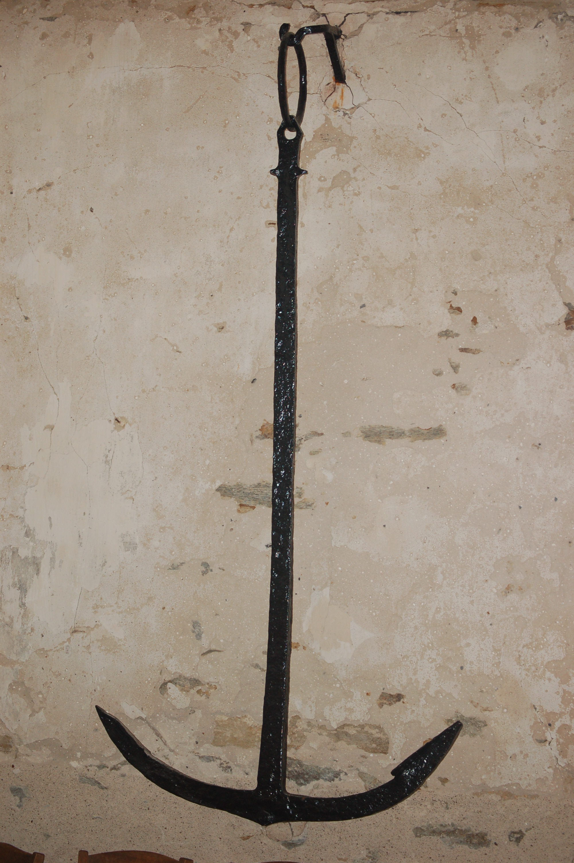 Viking achor (9th century) discovered in Loire Atlantique (France) and exhibited in the chapel of Prigny. Auteur/author: moi-même/myself